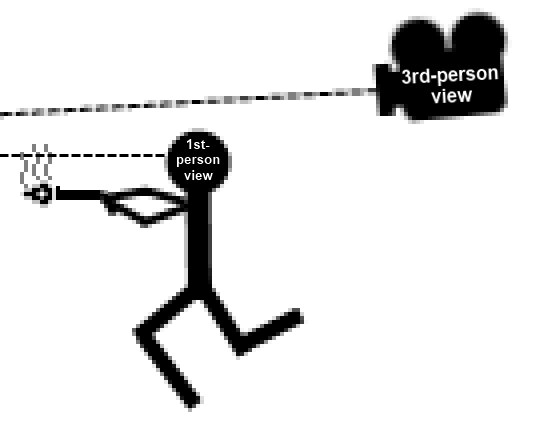 This is a picture which illustrates how first and third-person views are made done.